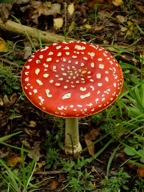 Fly agaric This near perfect specimen of fly agaric (amanita muscaria) was about 10cm across. Fly agaric derives its name from an insecticide (ibotenic acid), and was in the past used as such. It is slightly poisonous and has hallucinogenic properties...